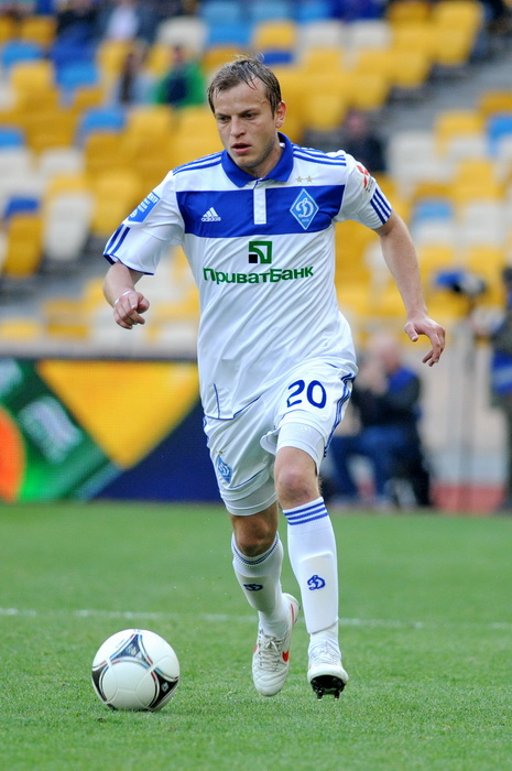 Ukrainian footballer of Dynamo Kyiv Oleh Husyev during match against Vorskla Poltava.